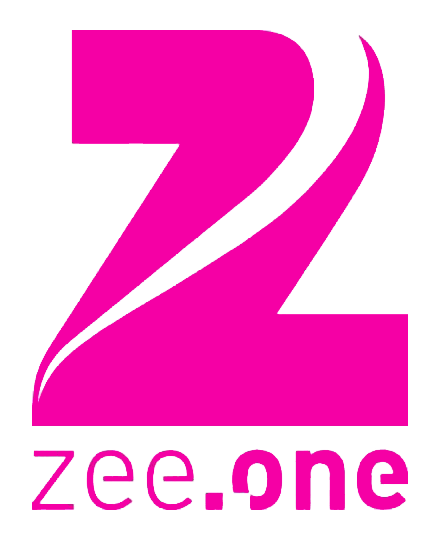 This is the station Logo of Zee One from on July 28th 2016.